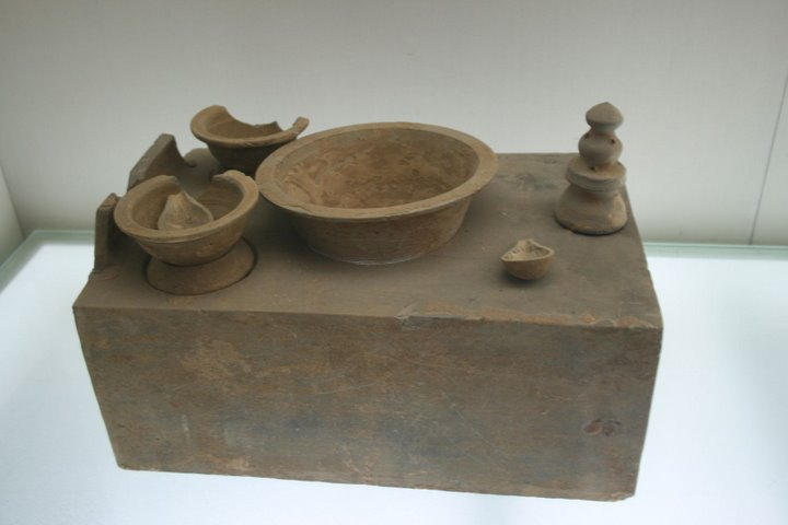 A pottery stove model from the Chinese Han Dynasty (202 BC – 220 AD).